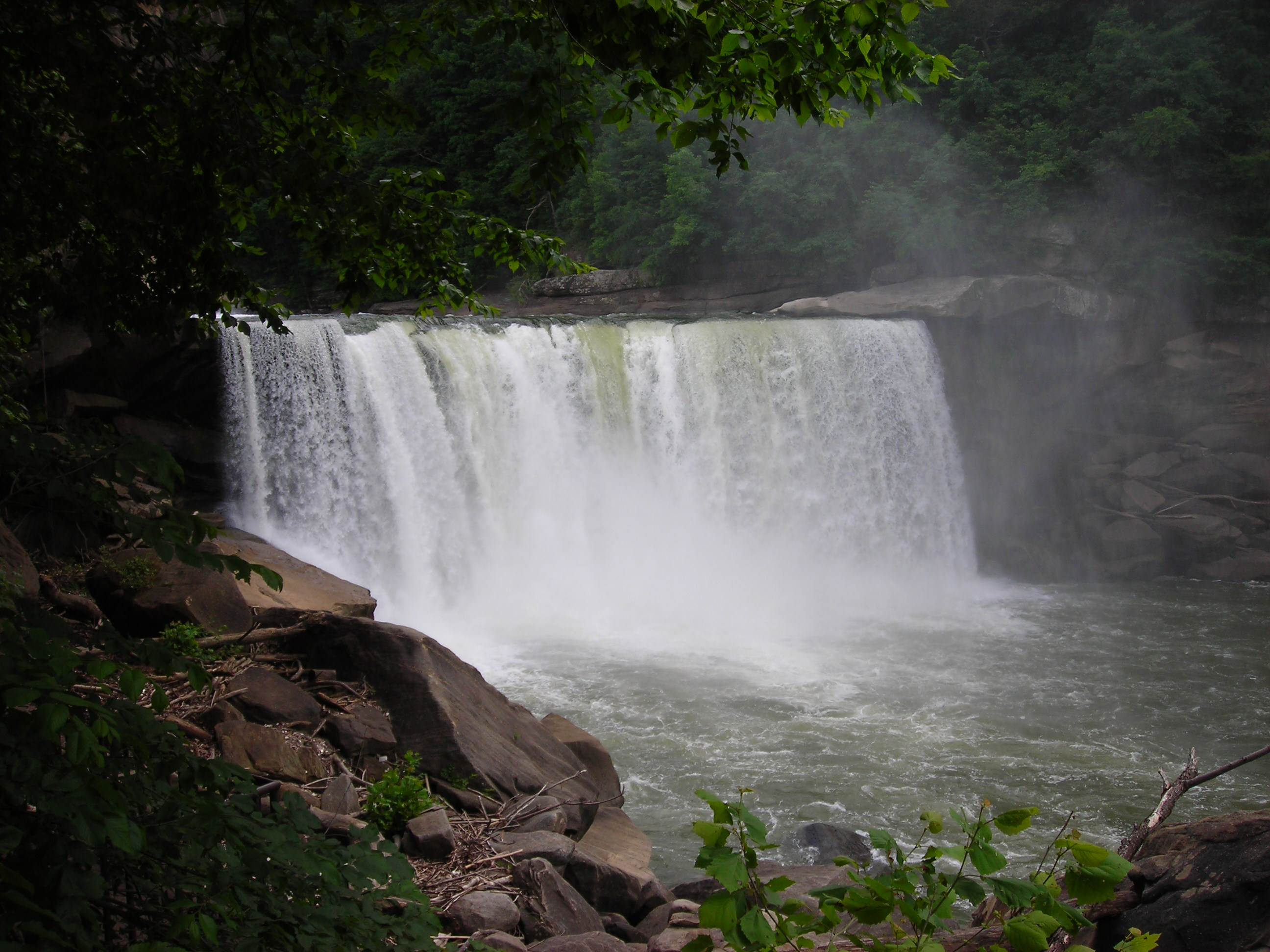 Cumberland Falls is located just inside of Whitley County, Kentucky, as part of the Daniel Boone National Forest and a Kentucky state park centered around the falls.